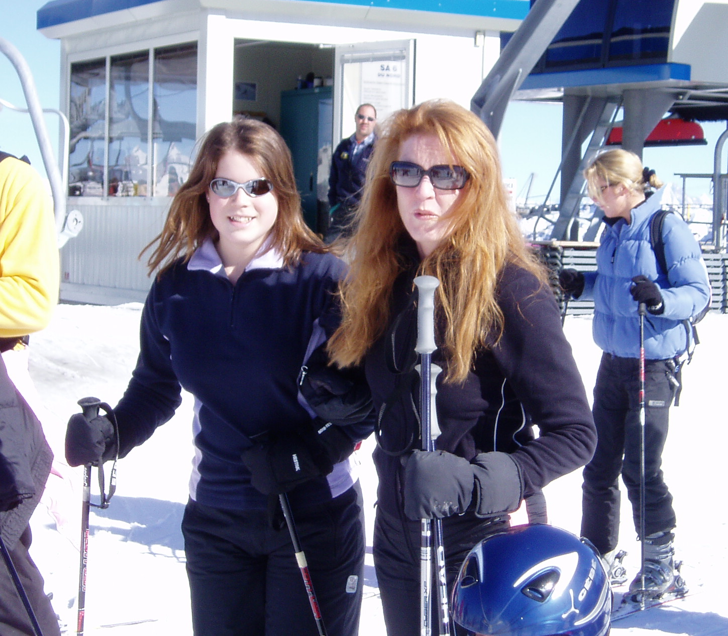 Princess Eugenie of York and Sarah, Duchess of York, skiing in Verbier, Switzerland